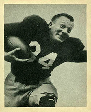 National Football League player Pat Harder of the Chicago Cardinals on a 1948 Bowman Gum football trading card